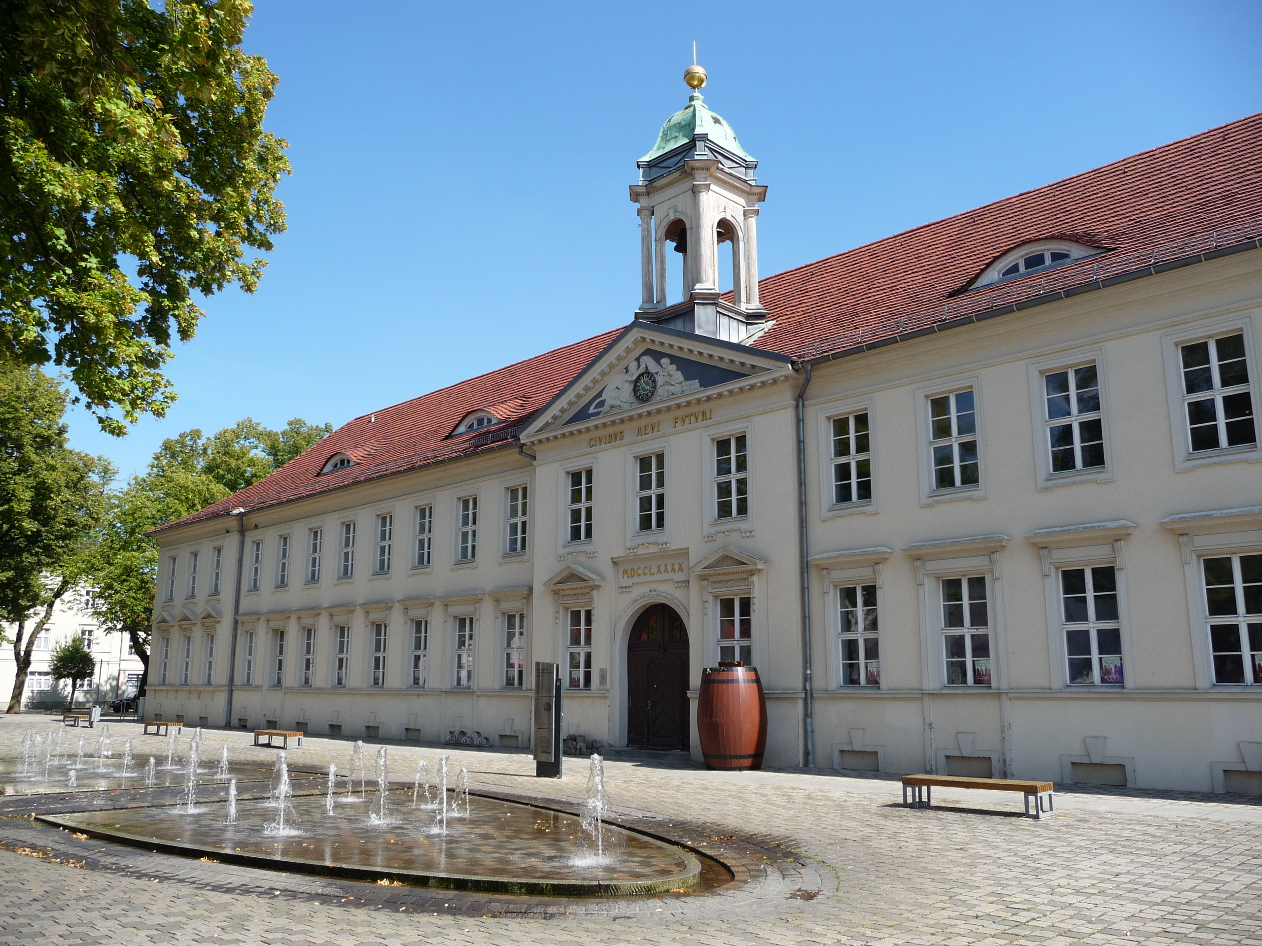 Old Gymnasium in Neuruppin (Brandenburg, Germany)